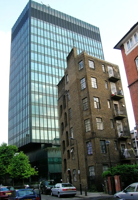 Churchway NW1 Looking toward the junction with Grafton Place NW1